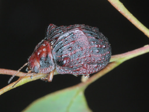 Trachymela papuligera